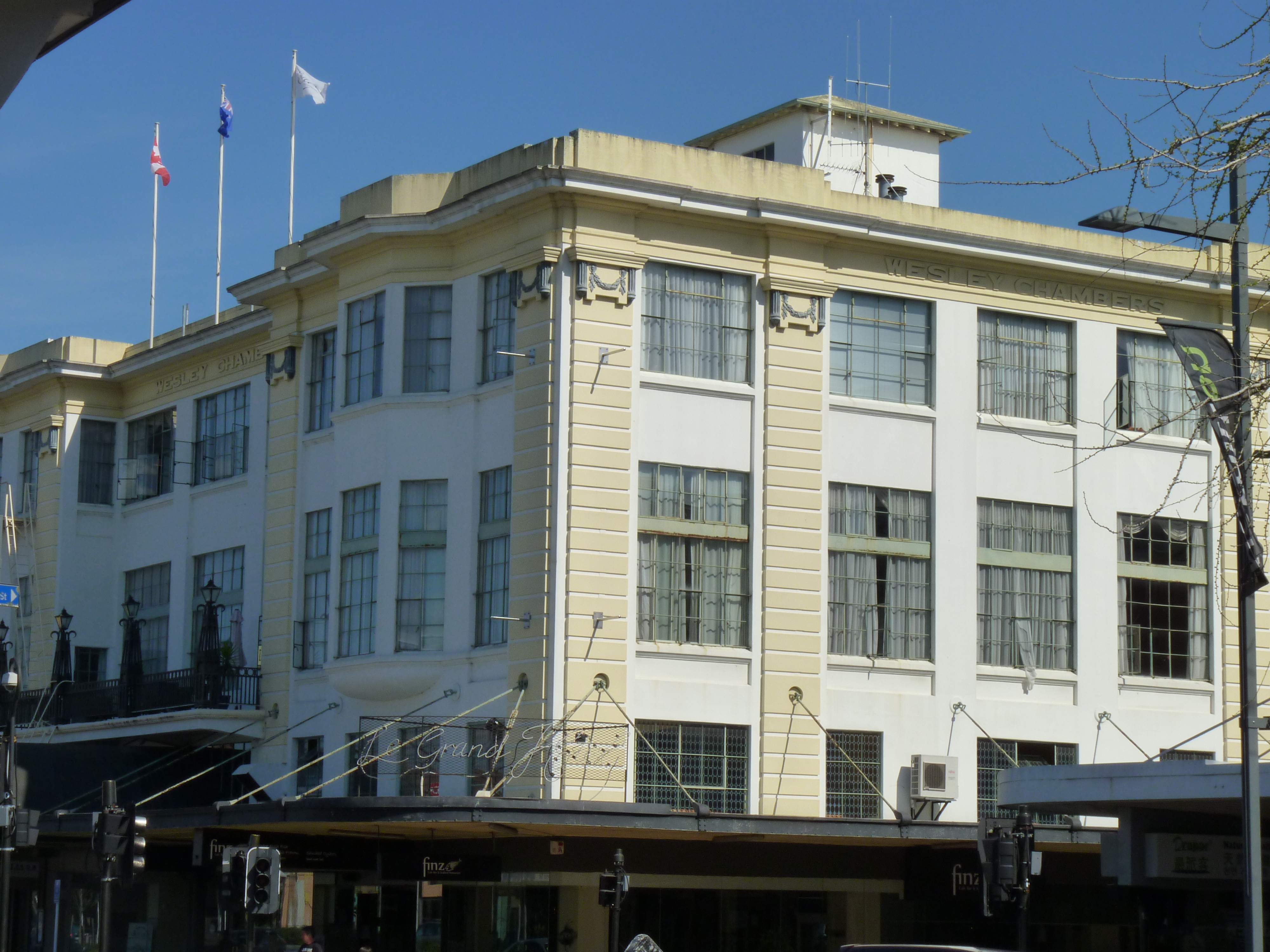 Wesley Chambers, a heritage building in Hamilton, New Zealand.